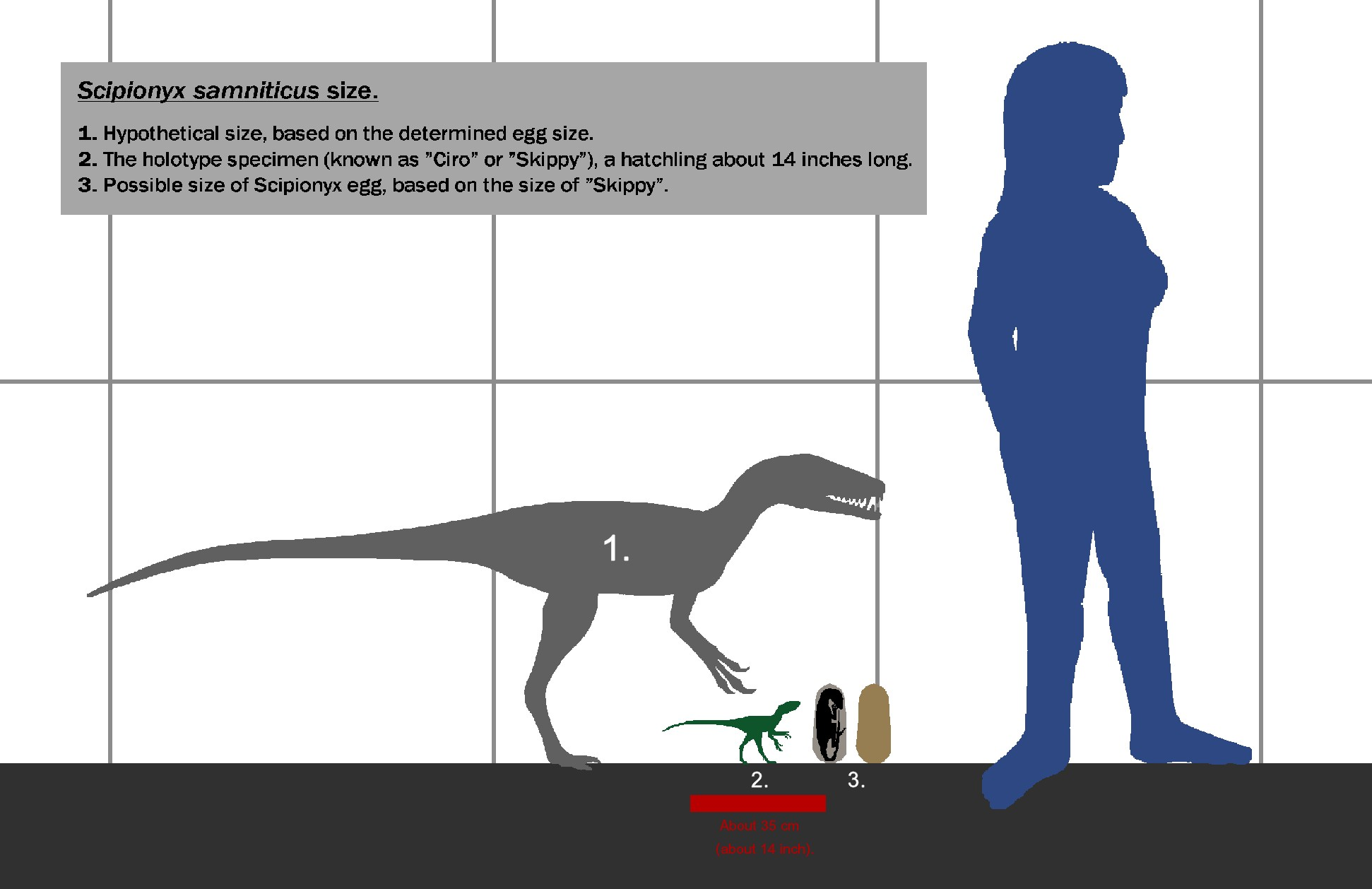 Hypothetical size of the theropod dinosaur Scipionyx samniticus. Scipionyx are only known from a well preserved hatchling (probably about 14 inch long in life), and based on the possible size of the eggs, we can got an estimating of how large they became as adult. The body size compared to the eggs are insired by the body/egg size are inspired by that of Oviraptor.